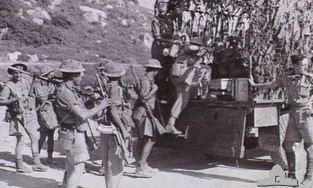 Australian troops from the 2/14th Battalion during the Syrian campaign, 13 June 1941.